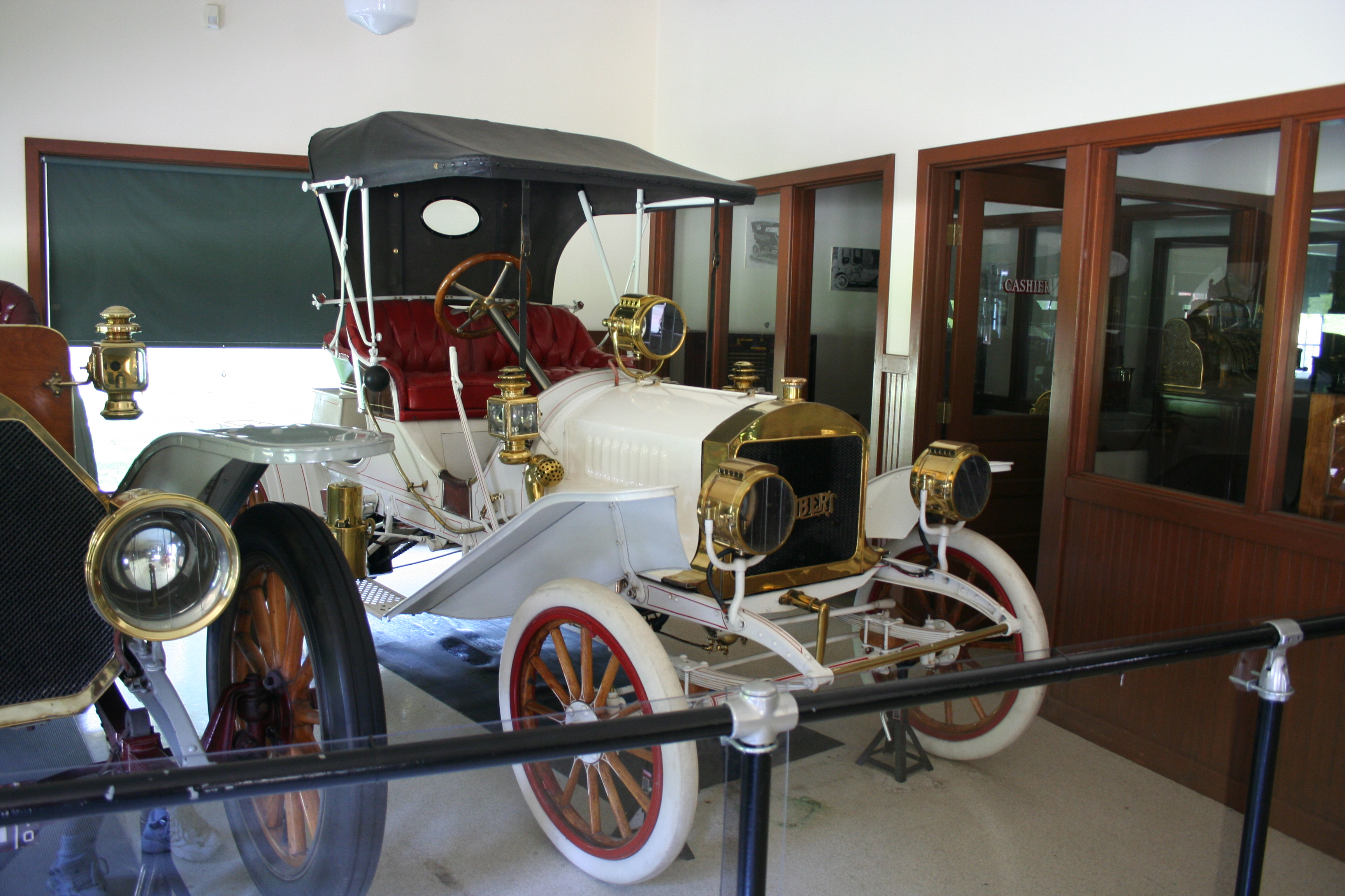 Lambert car 1907